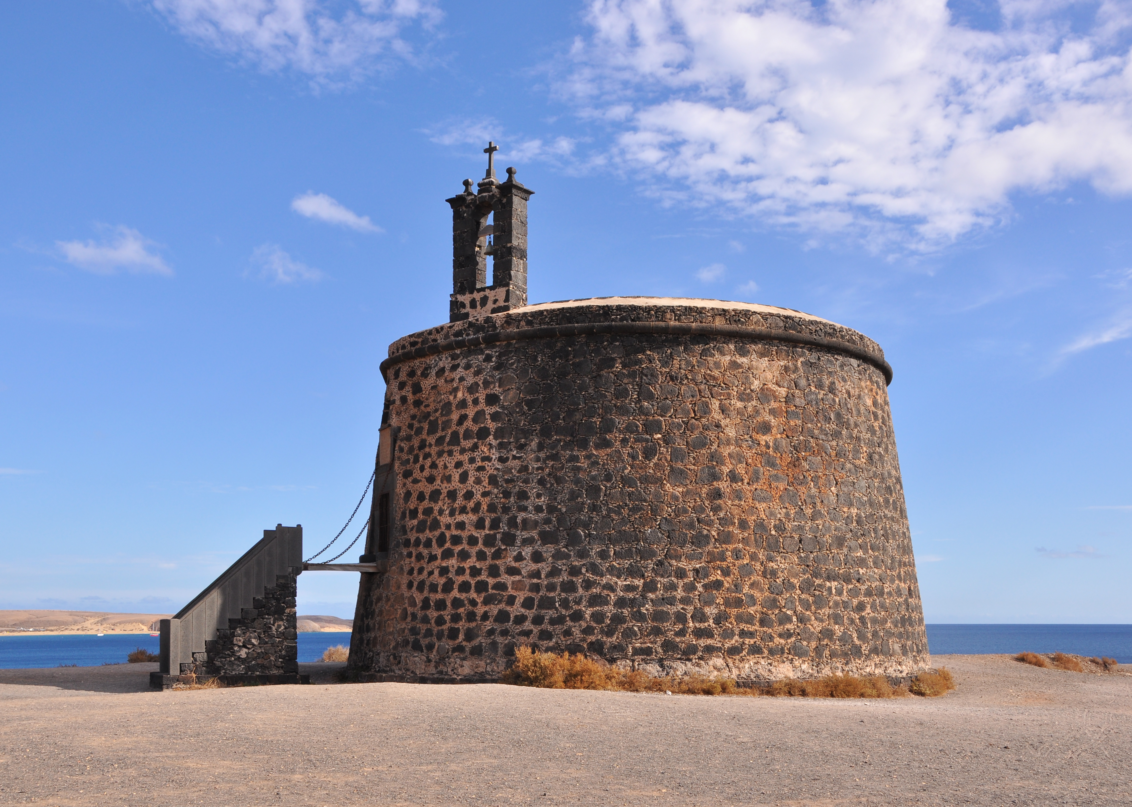 Playa Blanca (Yaiza, Lanzarote, Canary Islands): Las Coloradas Fort